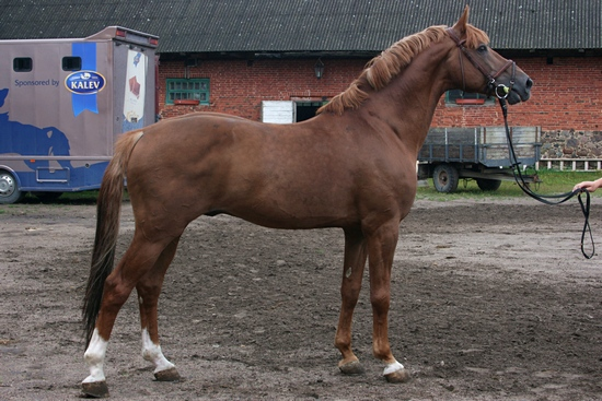 Tori horse of sport type, stallion Preester